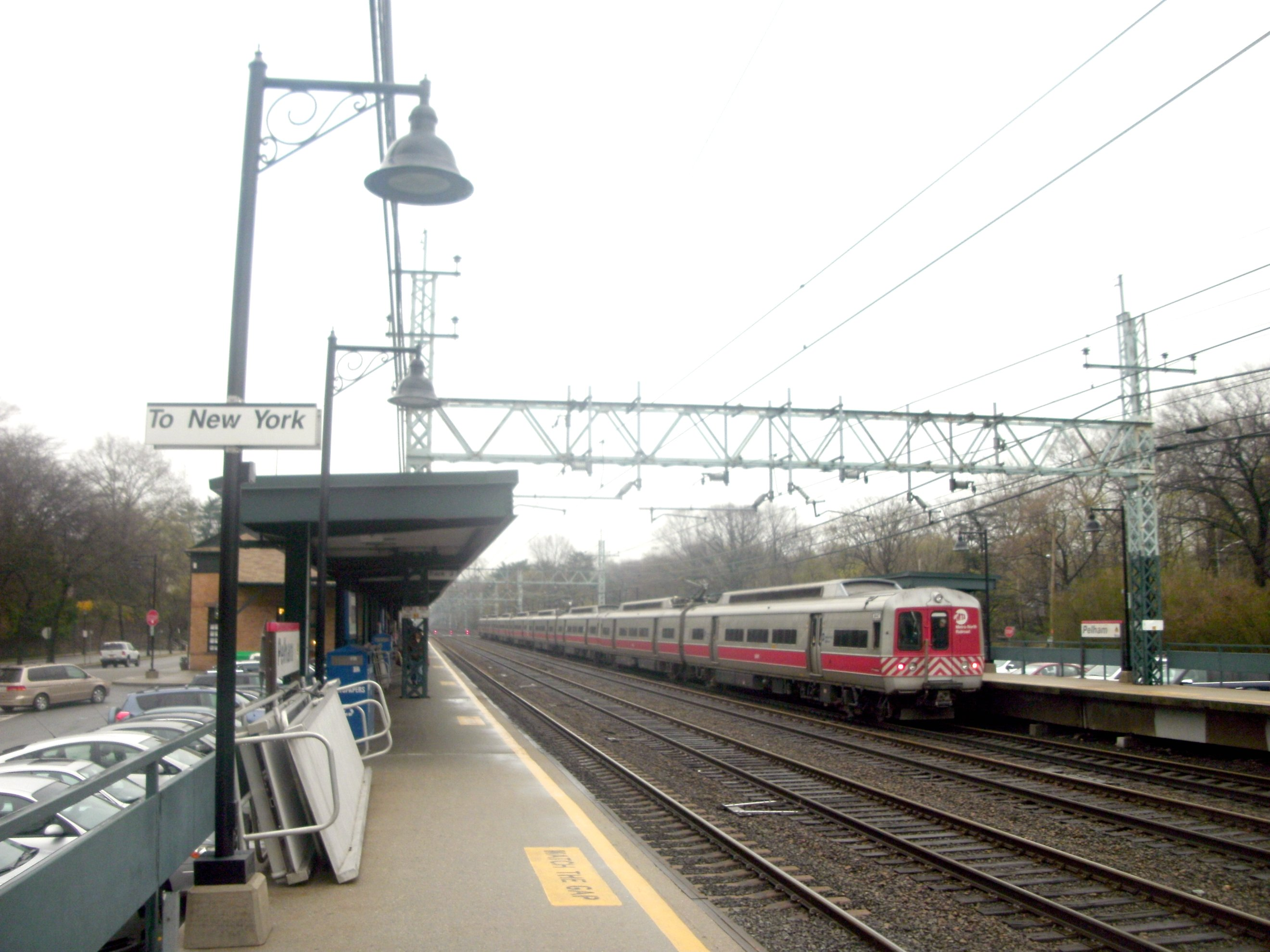 An M2 gets ready to depart the Pelham station for Metro-North in Pelham, New York during a cloudy afternoon.